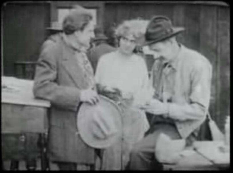 Murdock MacQuarrie plays detective John Murdock in the 1914 detective/western By the Sun Rays